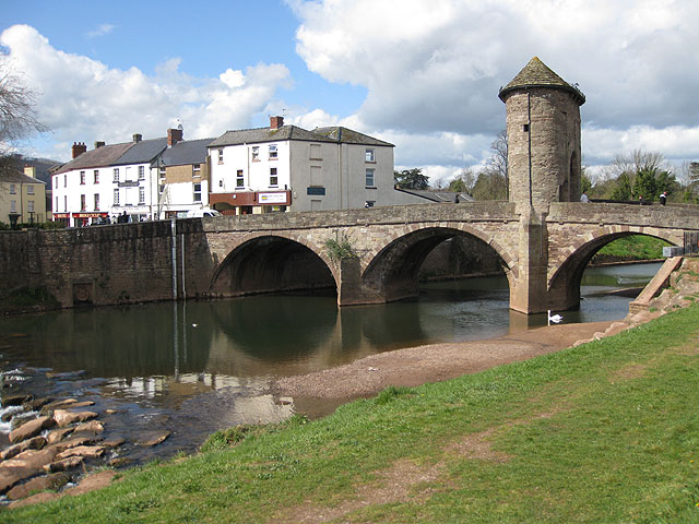 Monnow Bridge The only surviving medieval bridge in Britain with the gate tower still on the bridge. 1241357